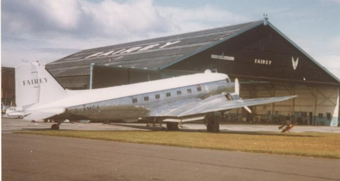 Fairey Air Surveys Douglas DC-3 at Manchester Airport in 1975 with Fairey's 1938-built hangar showing the names for Fairey and Britten-Norman